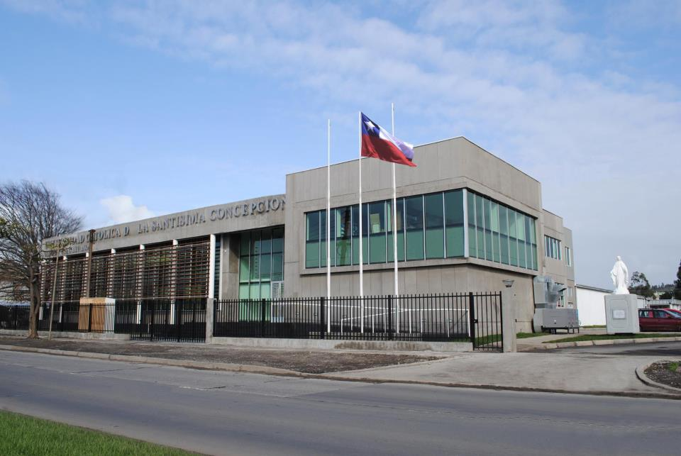 Ucsc campus talcahuano